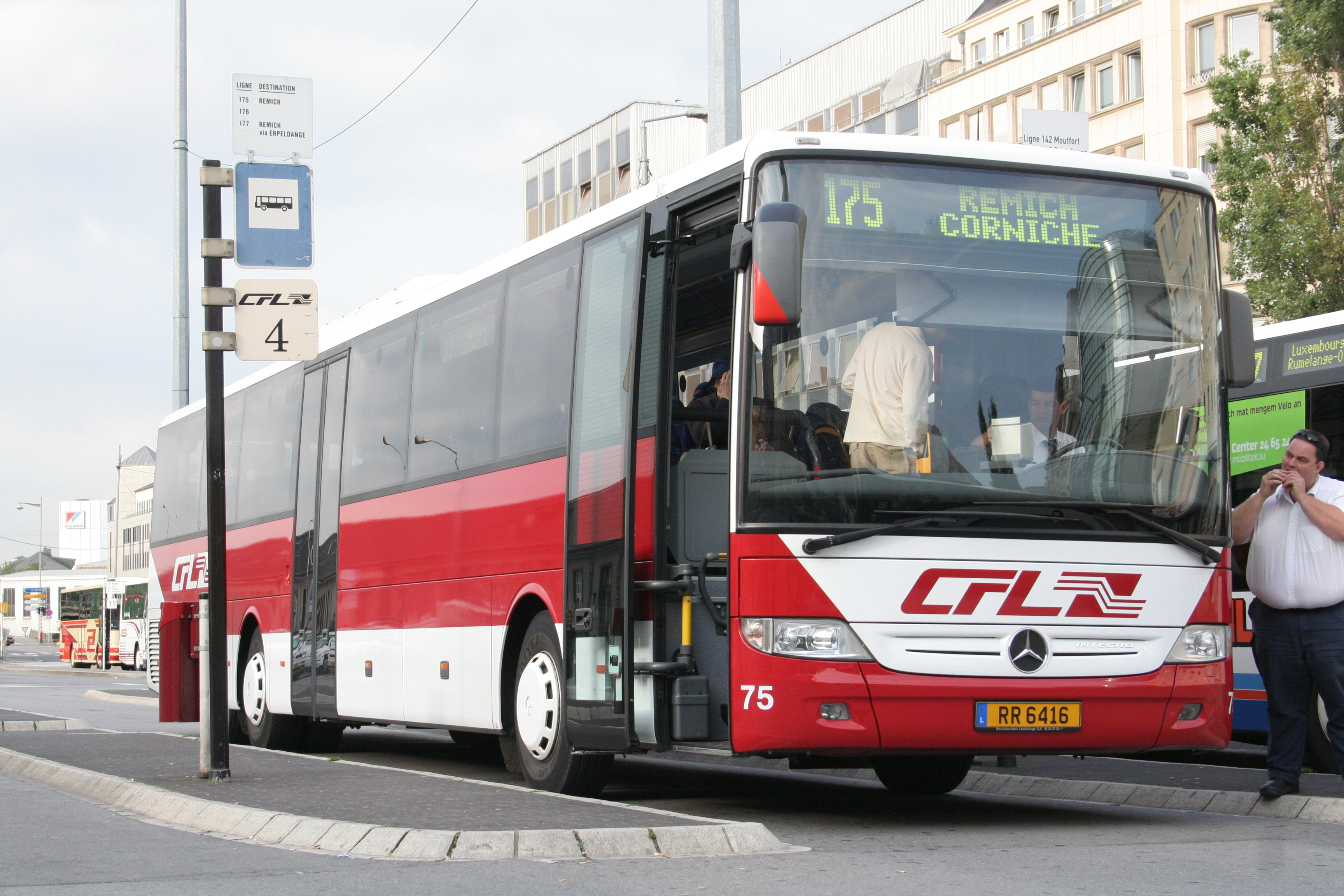 Mercedes-Benz Integro of CFL bus, Luxembourg.